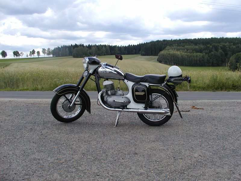 Jawa 353/03 export